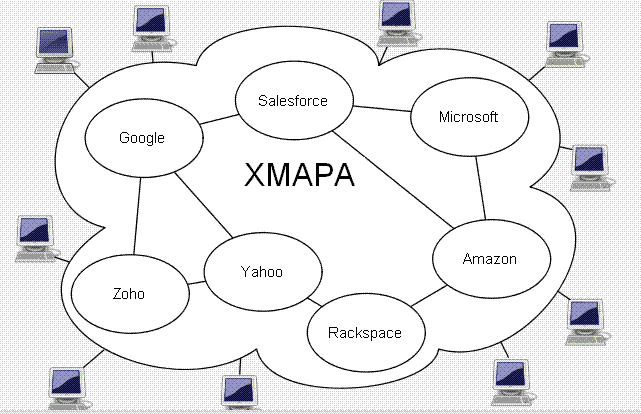 Diagram showing overview of cloud computing including Google, Salesforce, Amazon, Microsoft, Yahoo & Zoho